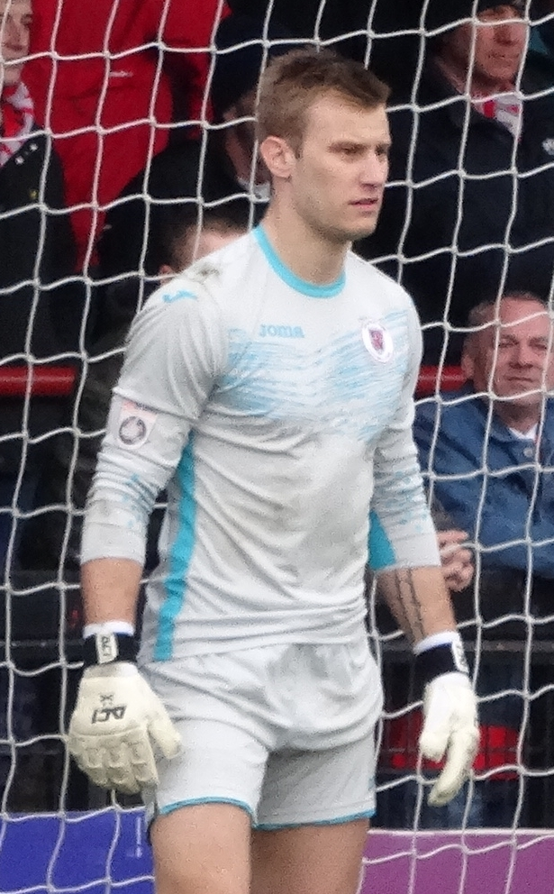 Laurie Walker playing for Brackley Town against York City at Bootham Crescent, York on 25 February 2017